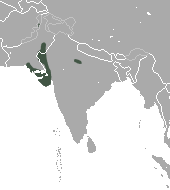 Indian Long-eared Hedgehog (Hemiechinus collaris) range